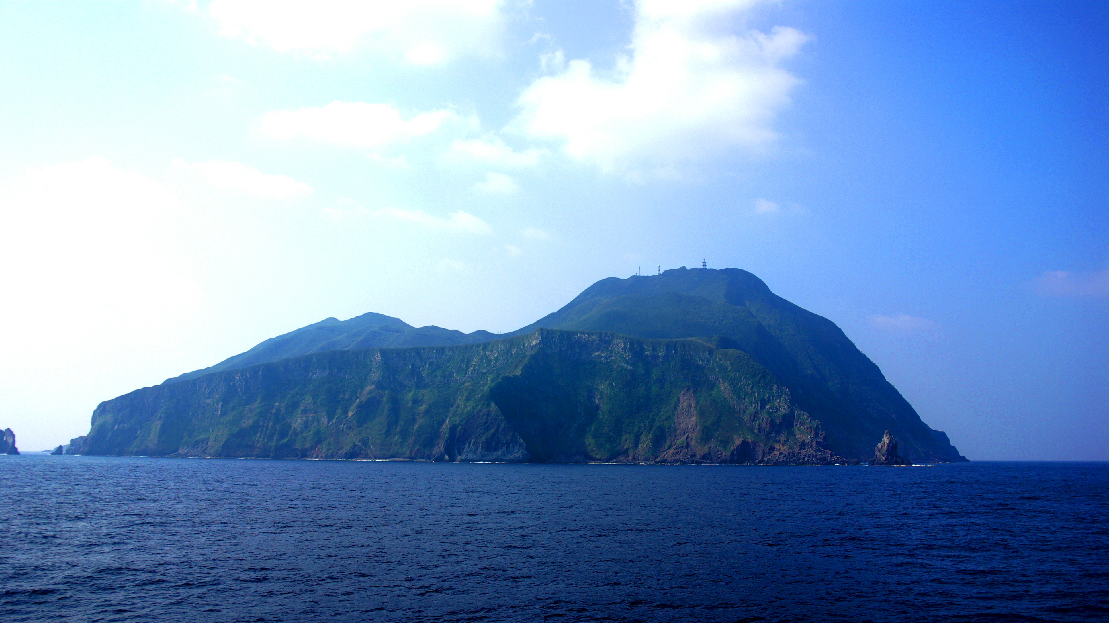 Island and volcano Akusekijima, Ryukyu Islands, Japan